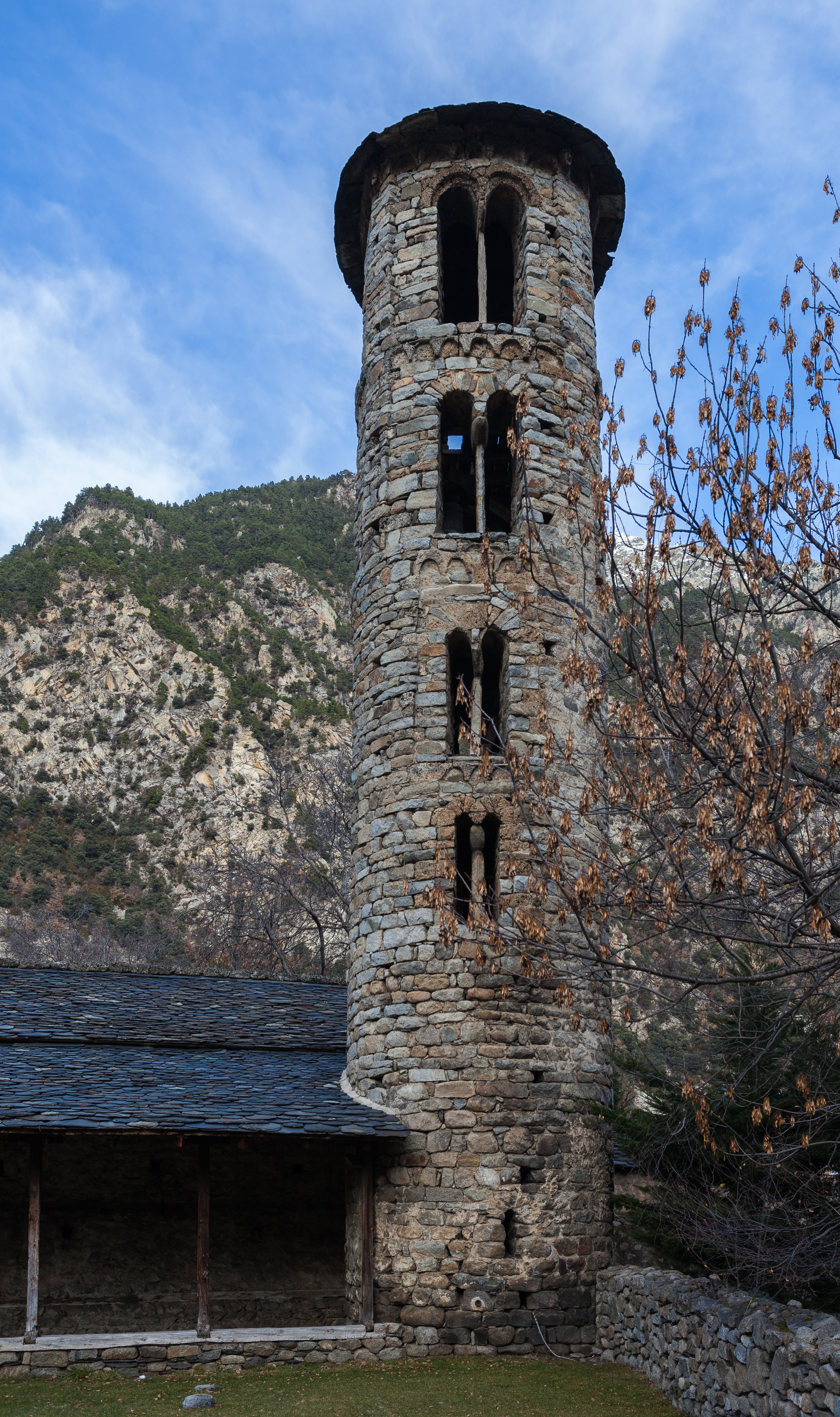 Church of St Coloma of Andorra, Santa Coloma, Andorra